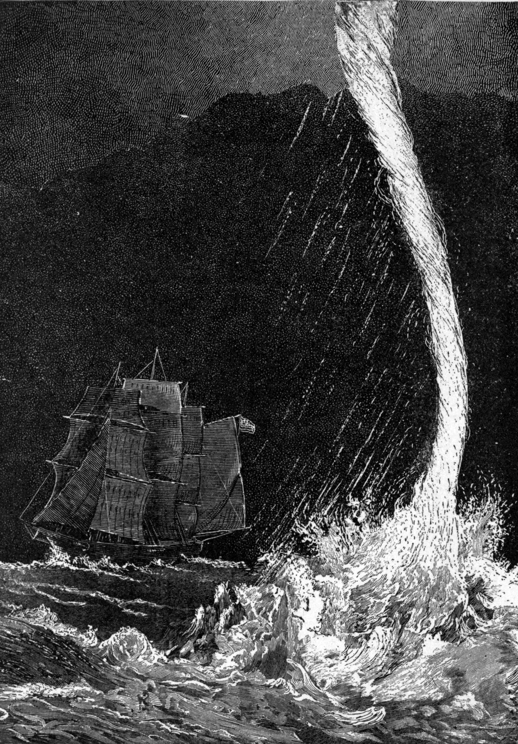 Waterspout